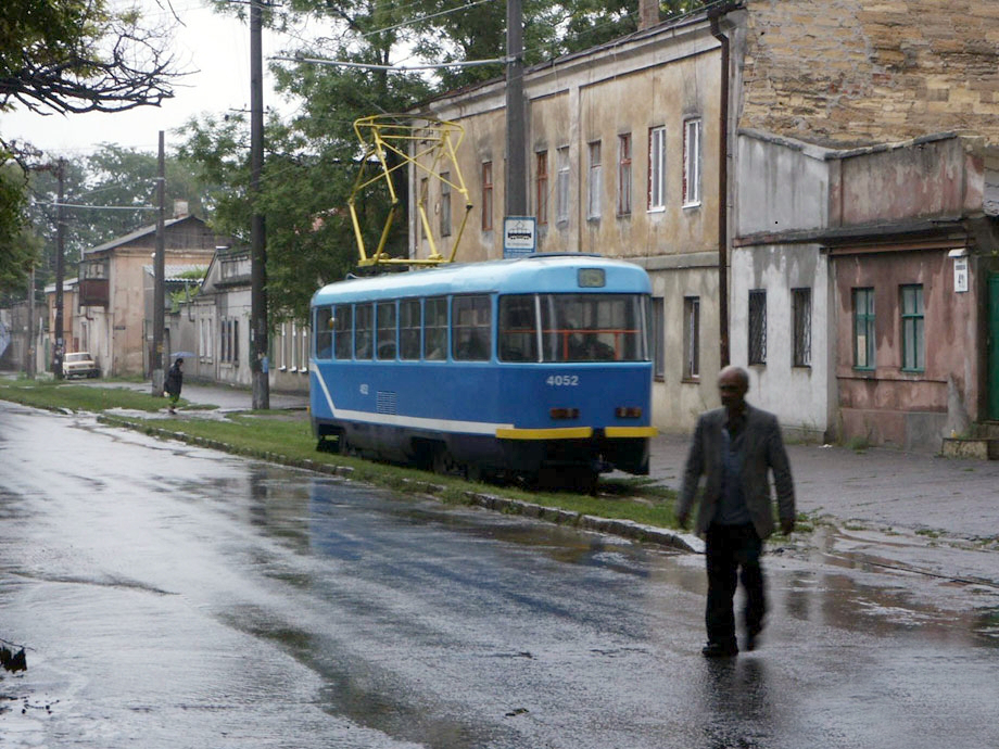 Tram stop in Slobidka, the neighborhood in the western part of Odessa, Ukraine.